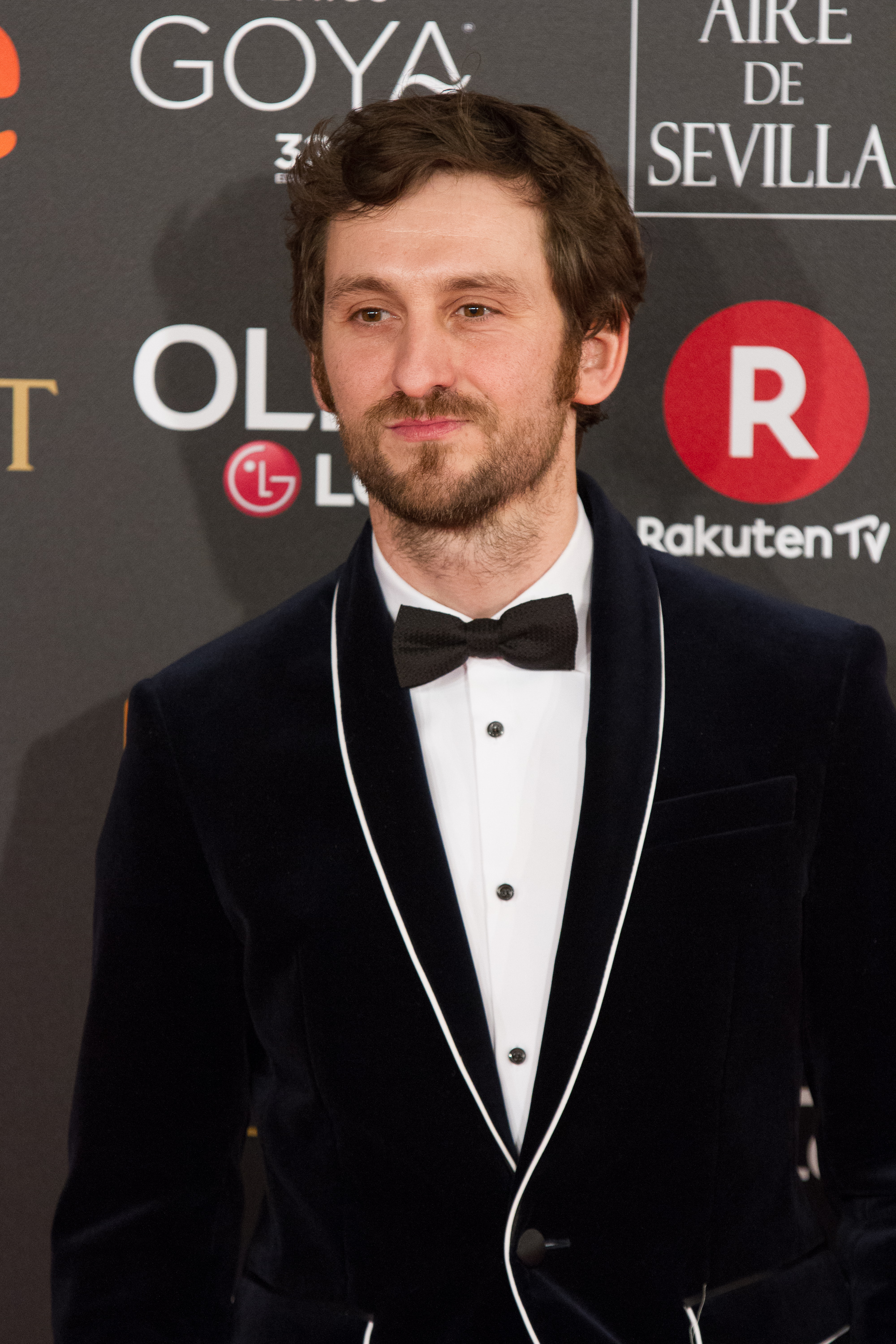 32nd Goya Awards, 2018.